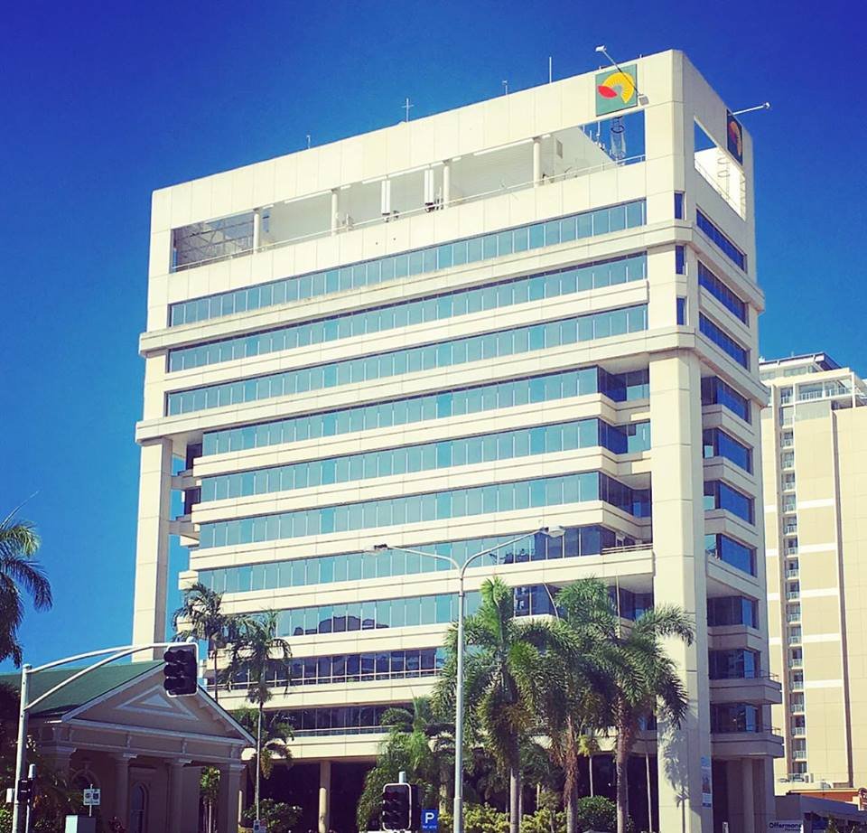 The Suncorp Business Centre in the Townsville Central Business District.